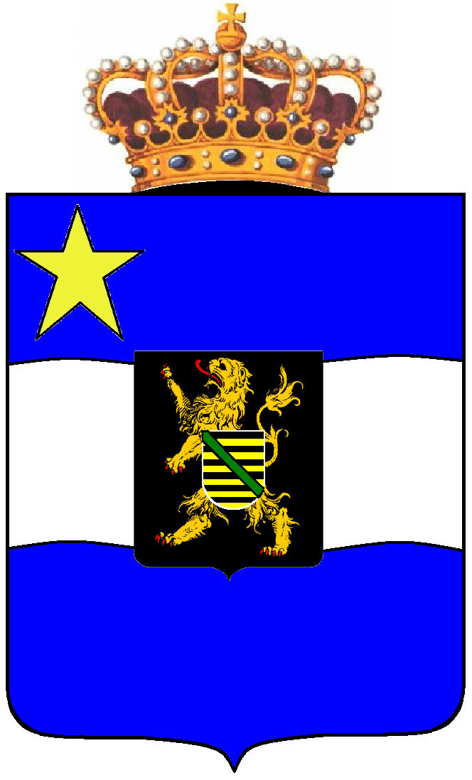 Lesser Coat of arms of the Congo Free State and later of Belgian Congo.